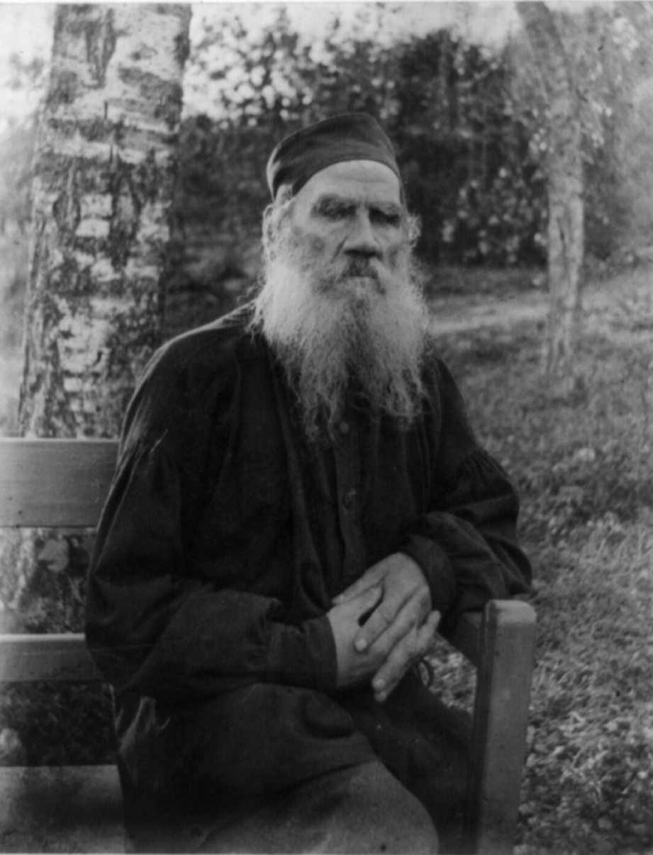 Leo Tolstoy seated.